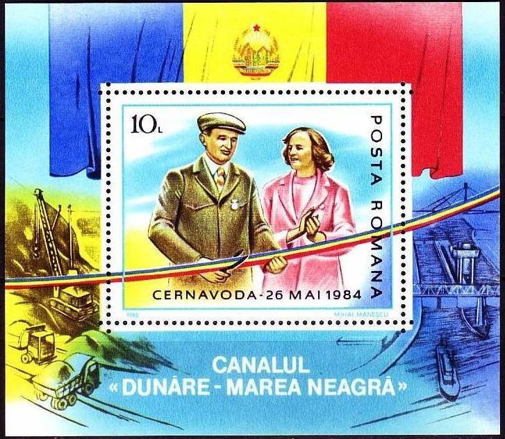 Stamp sheet commemorating the opening of the Danube-Black Sea Canal